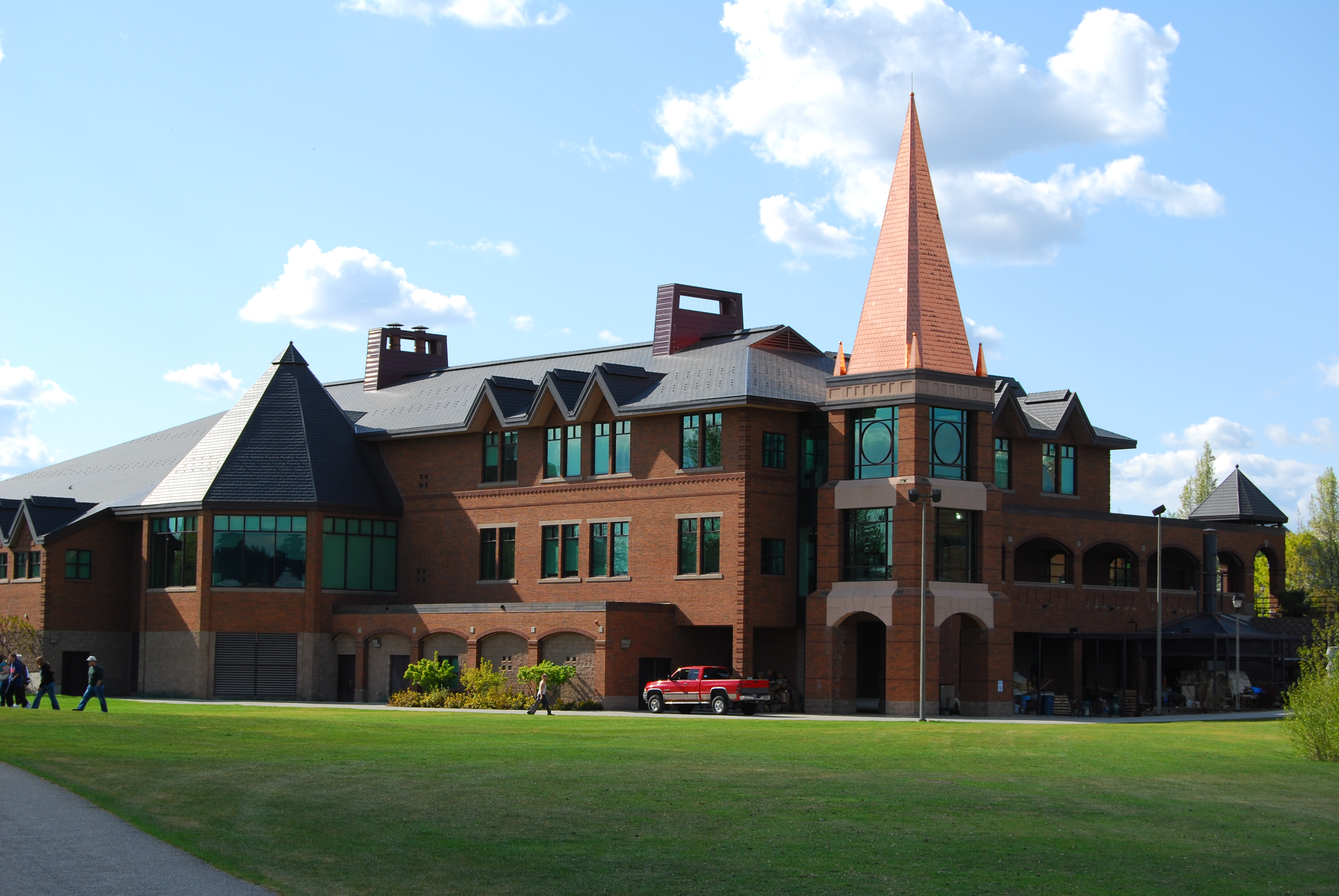 The Fine Art Center and Museum at Gonzaga University houses the Jundt Art Museum and classrooms.